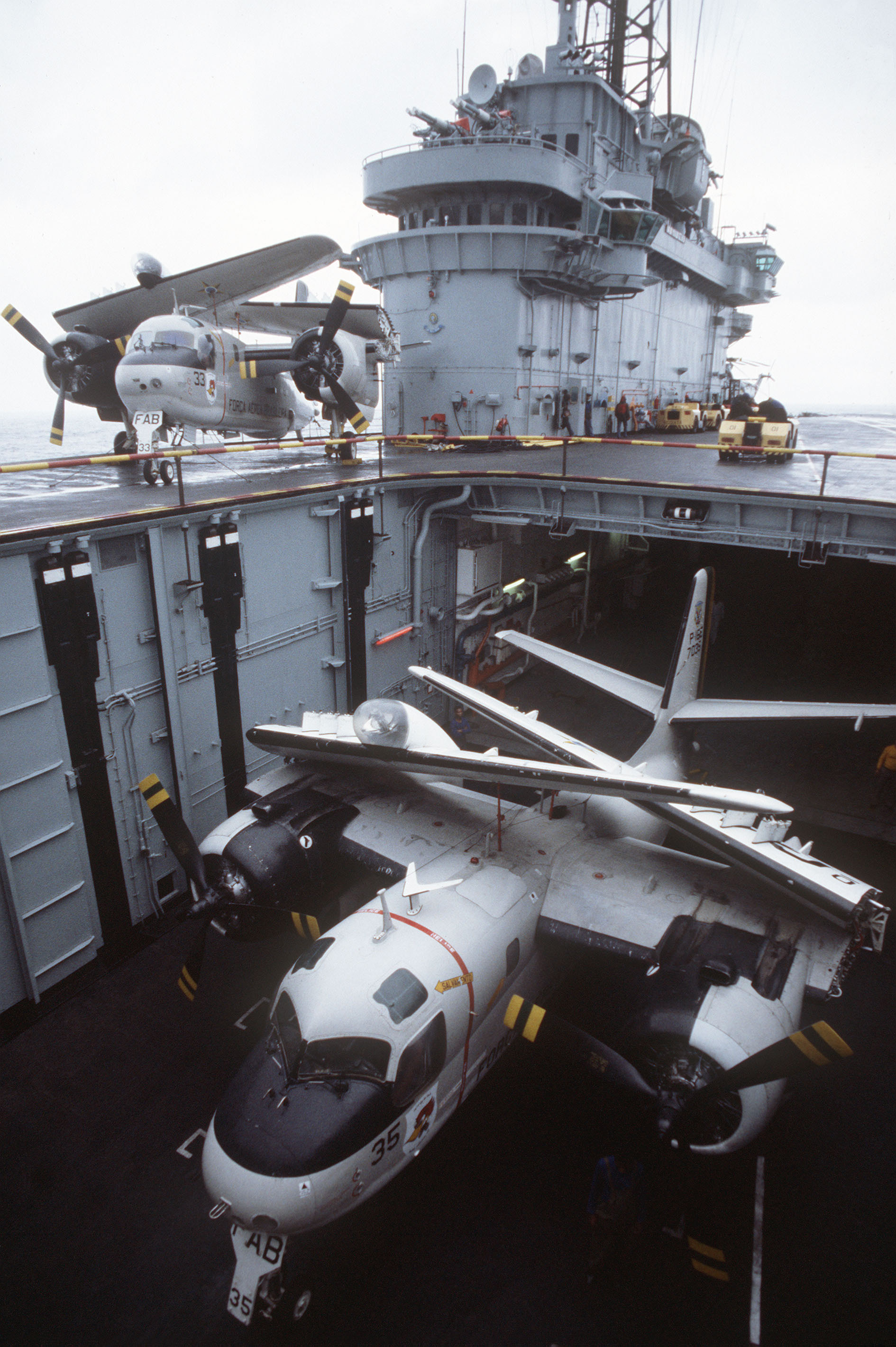 Brazilian Grumman S-2E Tracker anti-submarine aircraft aboard the aircraft carrier Minas Gerais (A11) during the "Unitas XXV" multinational naval exercise in 1984.